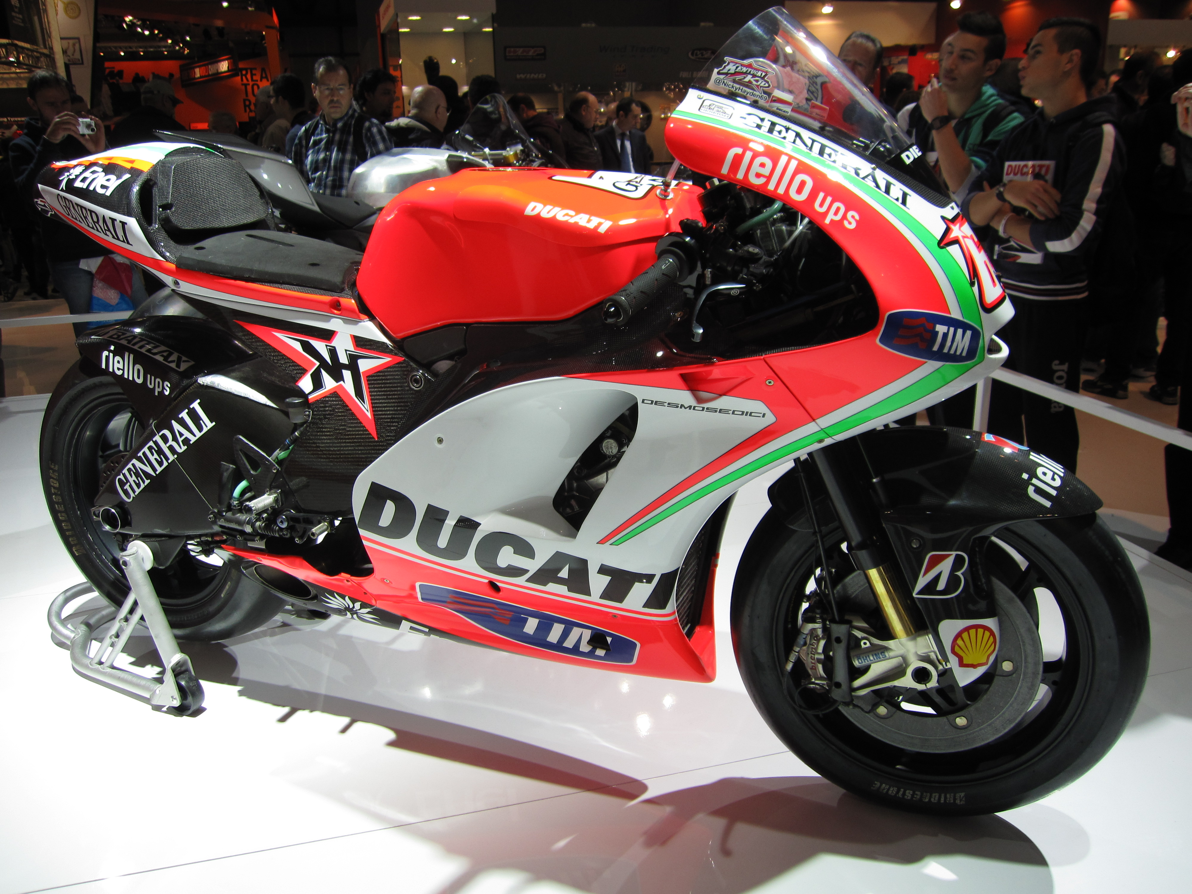 Nicky Hayden Ducati Desmosedici with carbon fiber chassis. Milan EICMA 2012